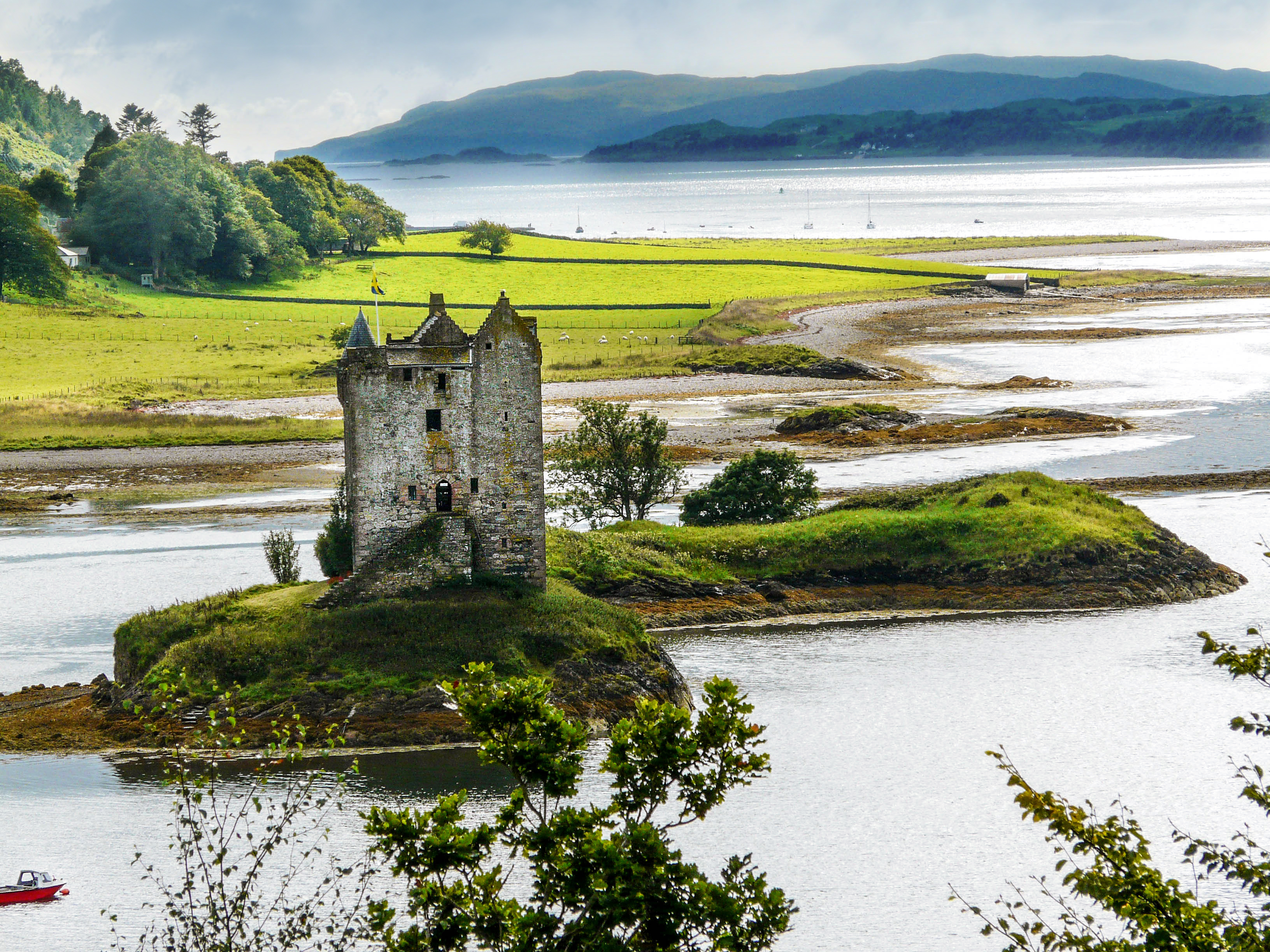 Scotland, Castle Stalker.